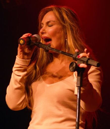 Brazilian actor Rosana Fiengo.